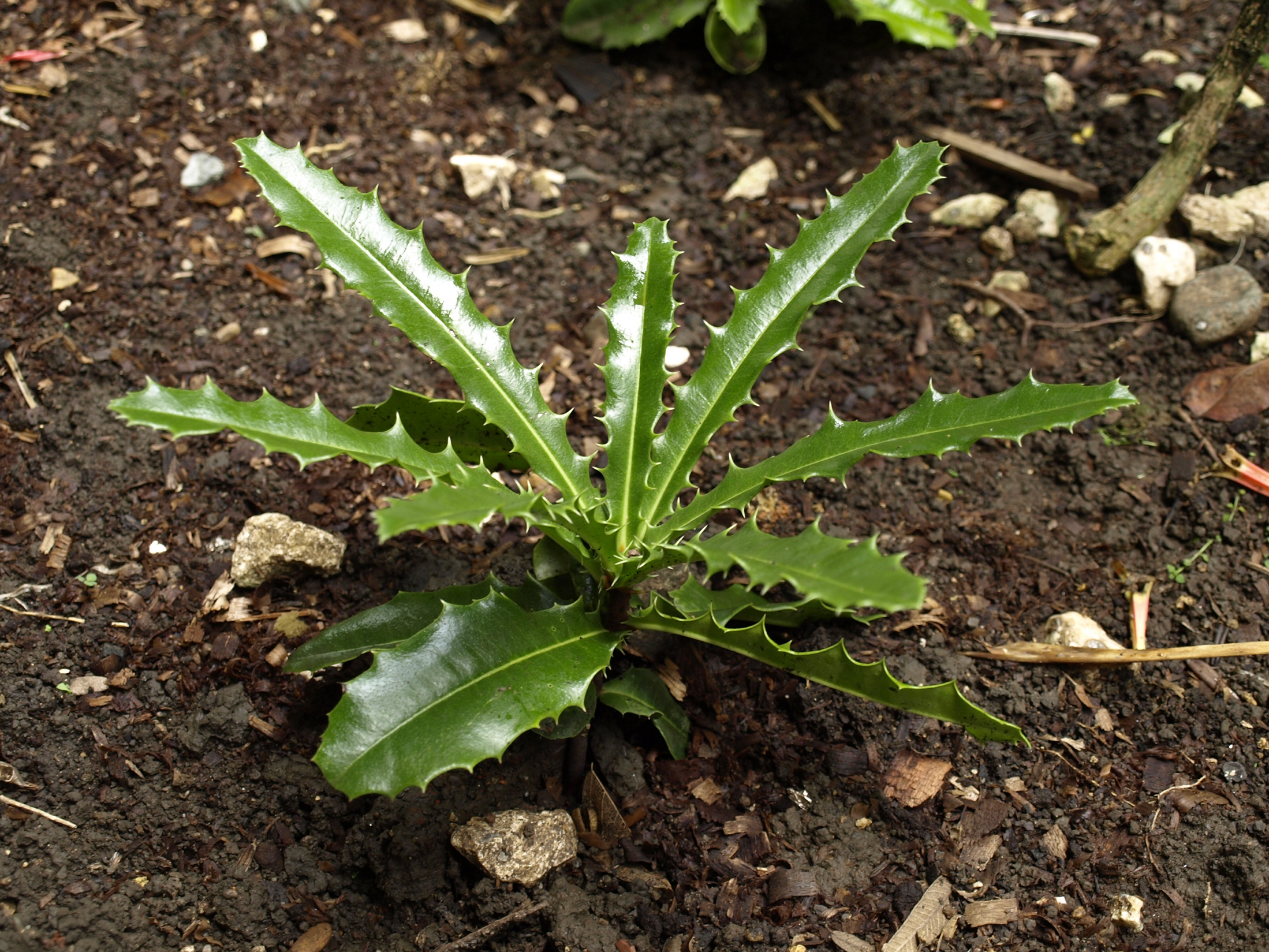 Theophrasta jussieui, cultivated, Jardin Botanico Nacional 'Rafael M. Moscoso' Santo Domingo, Dominican Republic.